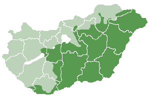 Great Hungarian plain on a hungarian map which shows also the hungarian countries.